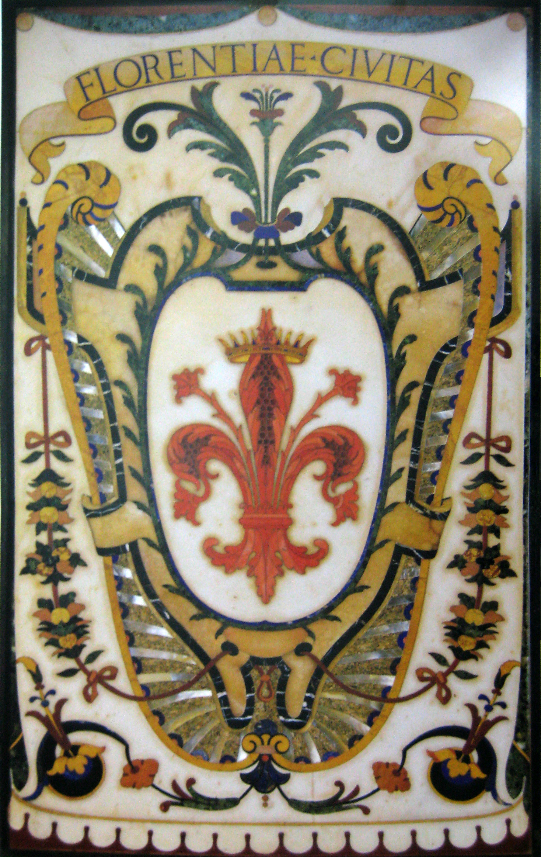 Emblem of Florence (Mosaic), Basilica of San Lorenzo (Medici Chapel)